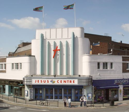 Jesus Centre, Abington Square, Northampton. Art Deco building, designed by William R Glen in Streamline Moderne style and built in 1936 for Associated British Cinemas (ABC). Opened as the Savoy cinema, later became a Cannon, closed 1995. Refurbished and re-opened in 2004 by the Jesus Army.